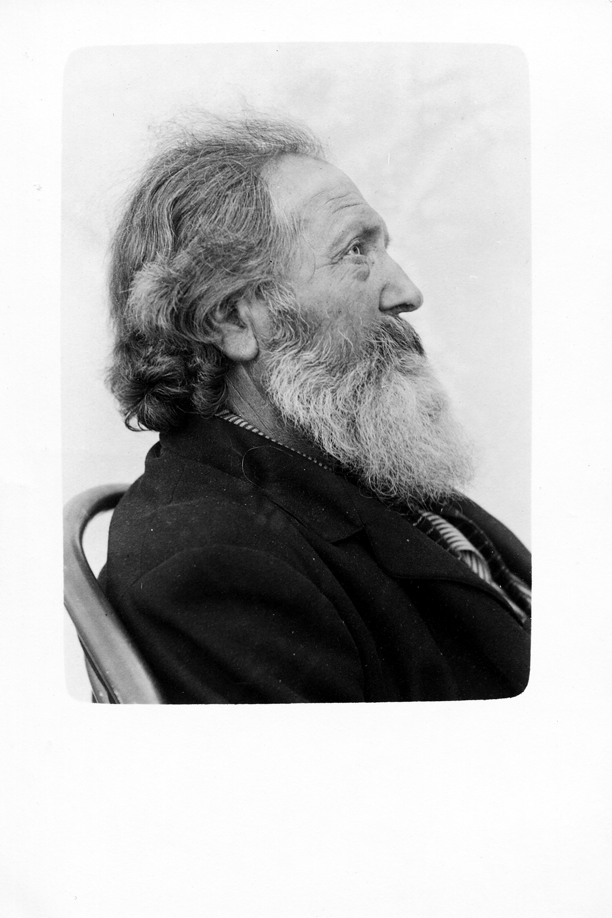 Photographic portrait of Professor Hugh Alexander Webster (1849-1926) from a family archive - the album of his daughter.